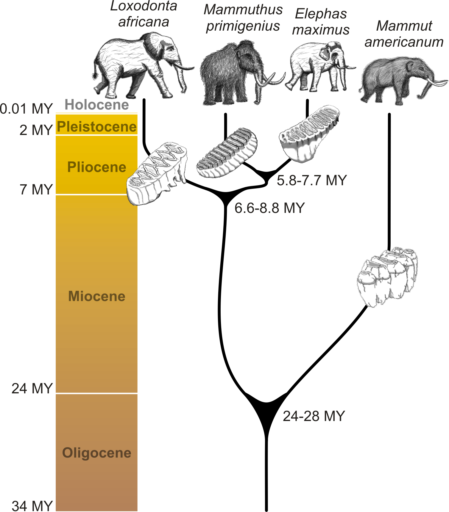 Phylogeny and Divergence Times Determined by This Study for the Four Proboscidean Species Analyzed